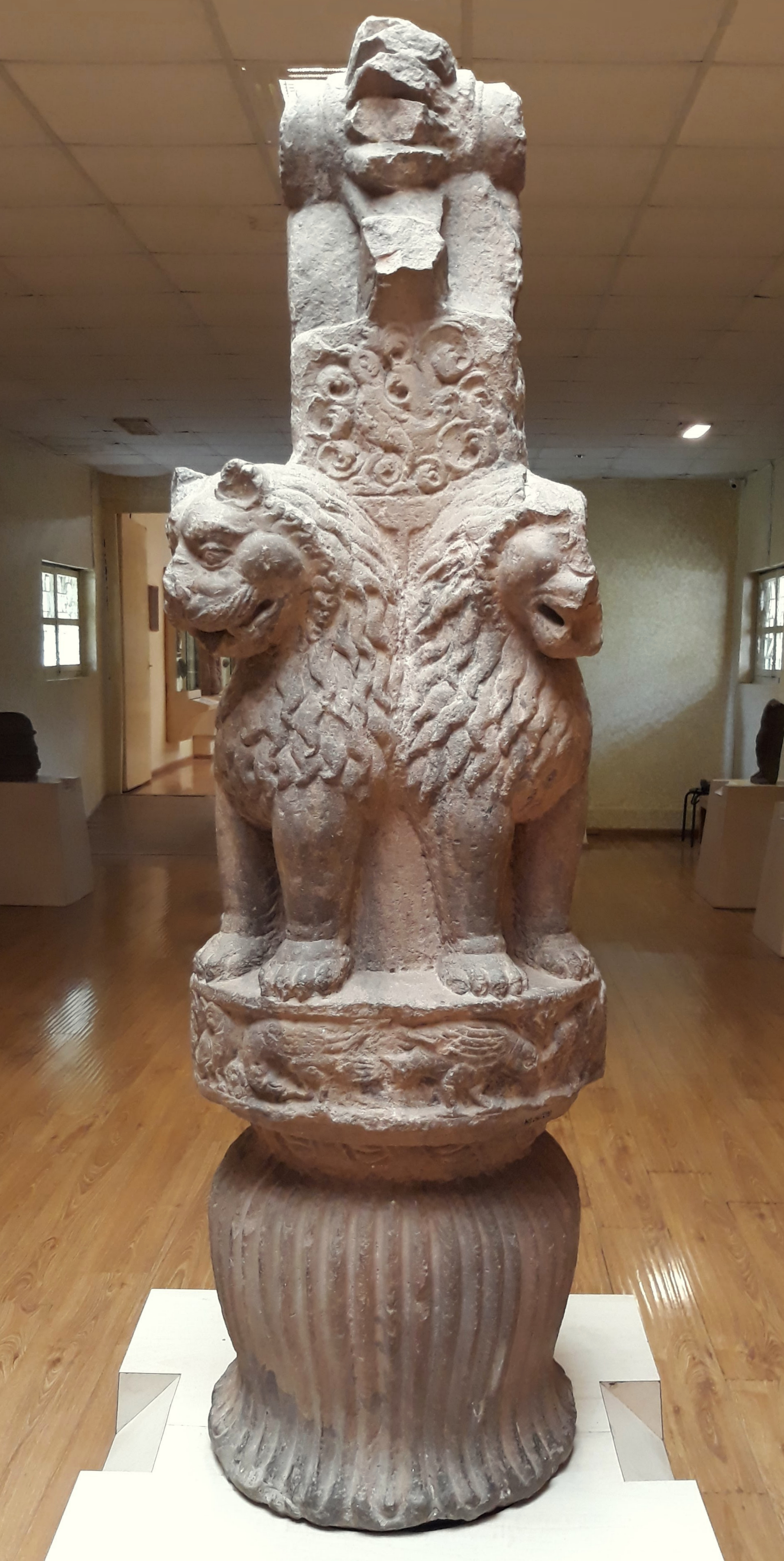 Sanchi Gupta lion capital